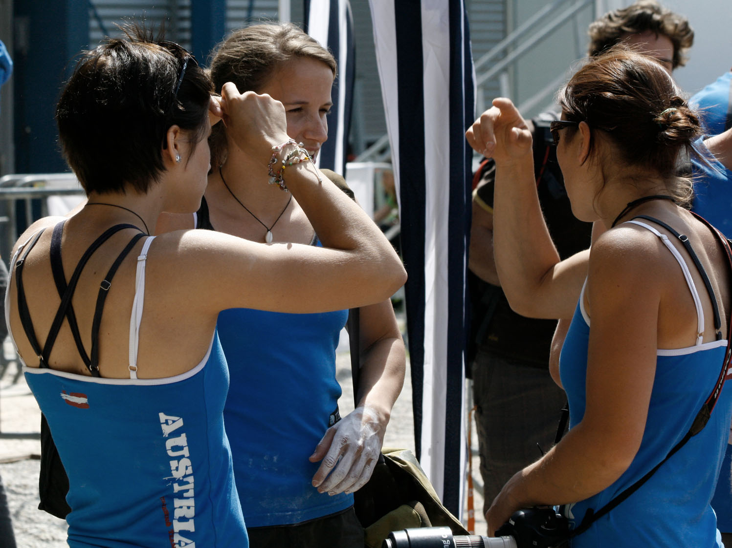 Johanna Ernst, Anna Stöhr and Barbara Bacher during the semi-finals at the IFSC Boulder Worldcup Vienna 2010.